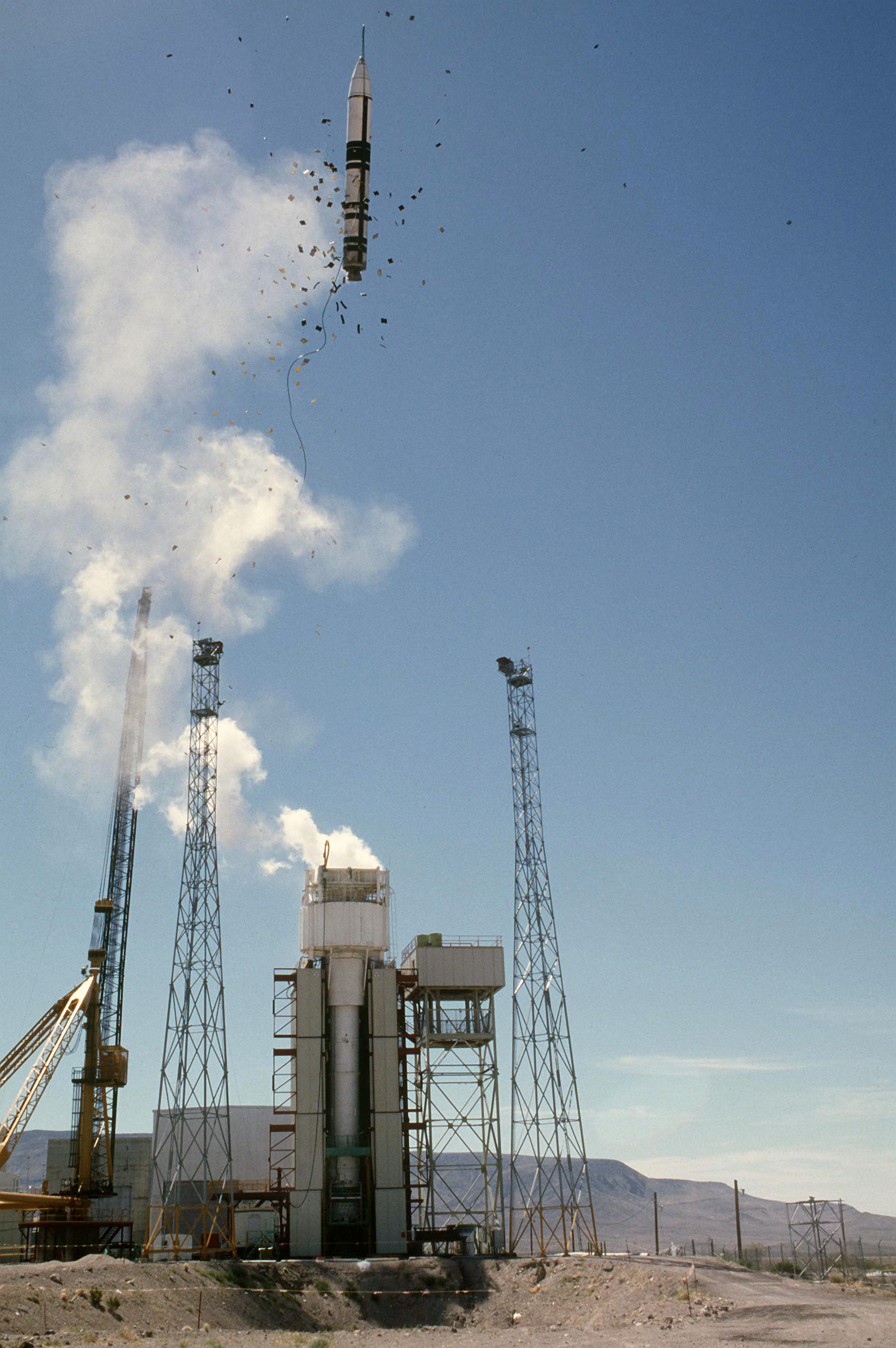 Cold Launch of a Peacekeeper missile dummy model. Notice that the rocket dummy has no engine. This was a demonstration of the cold launch technique which allows the rocket to clear the silo before starting its engines. The black things falling off of it allow it to more easily flow through the silo. ID: DFST8611232 Service Depicted: Air Force An LGM-118A Peacekeeper intercontinental ballistic missile is ejected from a launch canister during a test launch. (Fourth view in a series of four) Location: MERCURY, NEVADA (NV) UNITED STATES OF AMERICA (USA)